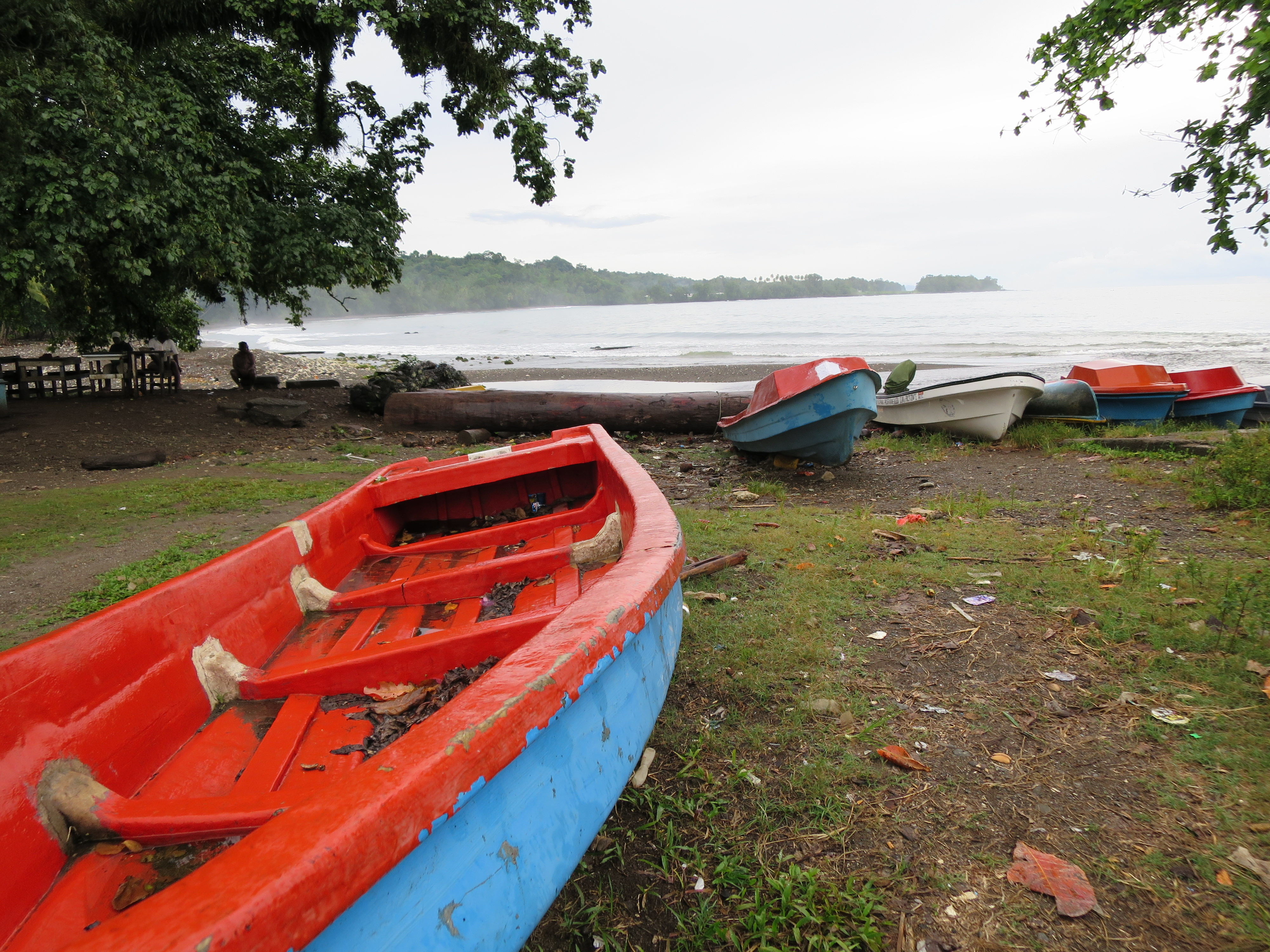 This photograph was taken at a beach at Kirakira, where the local markets are usually held every day.